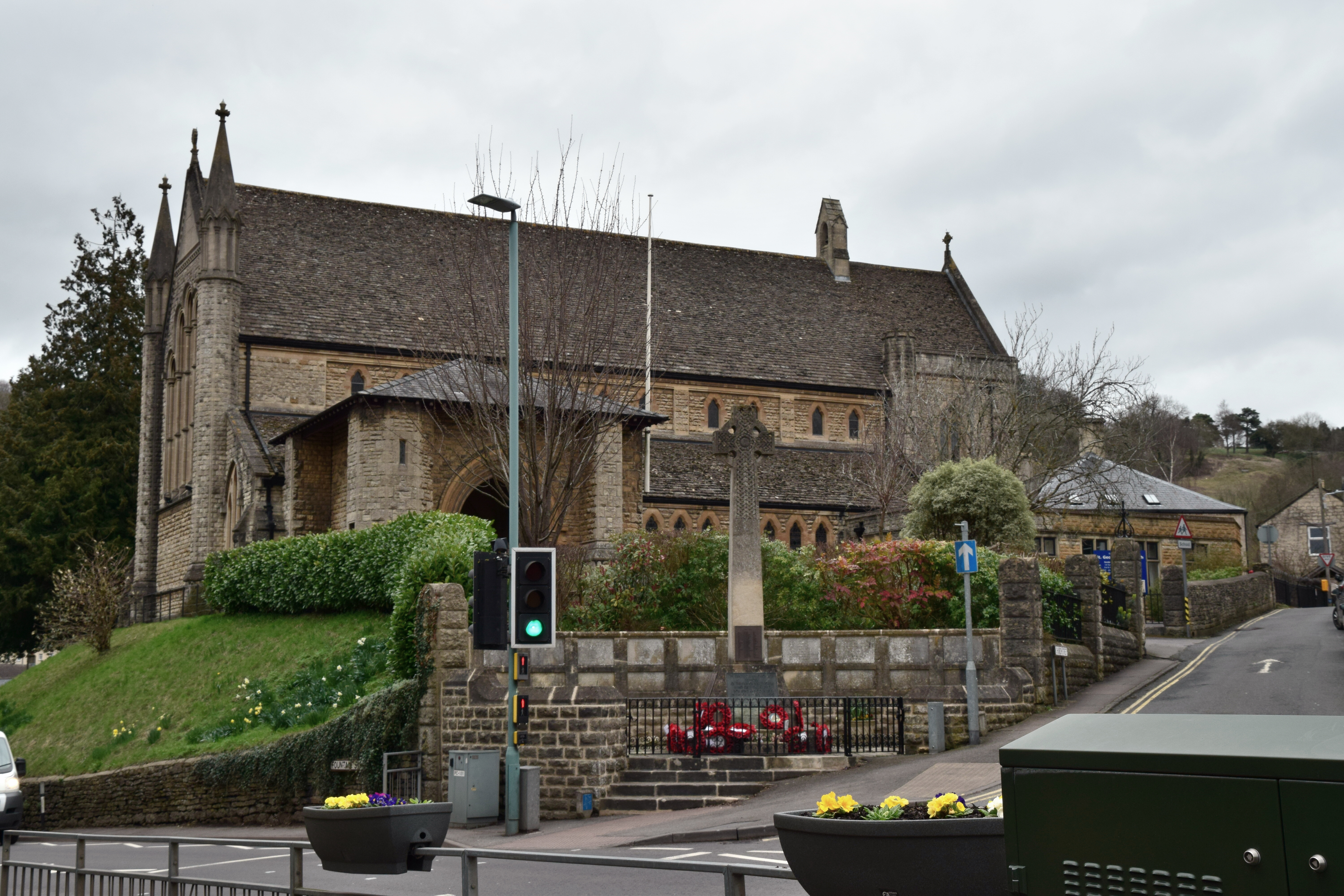 Nailsworth Church (St. George), Gloucstershire, 7 March 2019. Very late Victorian neo-Gothic, designed by M H Medland and built in 1900 but the finances ran out before completion, only the nave, aisles and south porch being completed. The chancel, Lady Chapel and vestries were added in 1939 but the planned tower was never built. The church has no churchyard. Pictured is the south elevation.